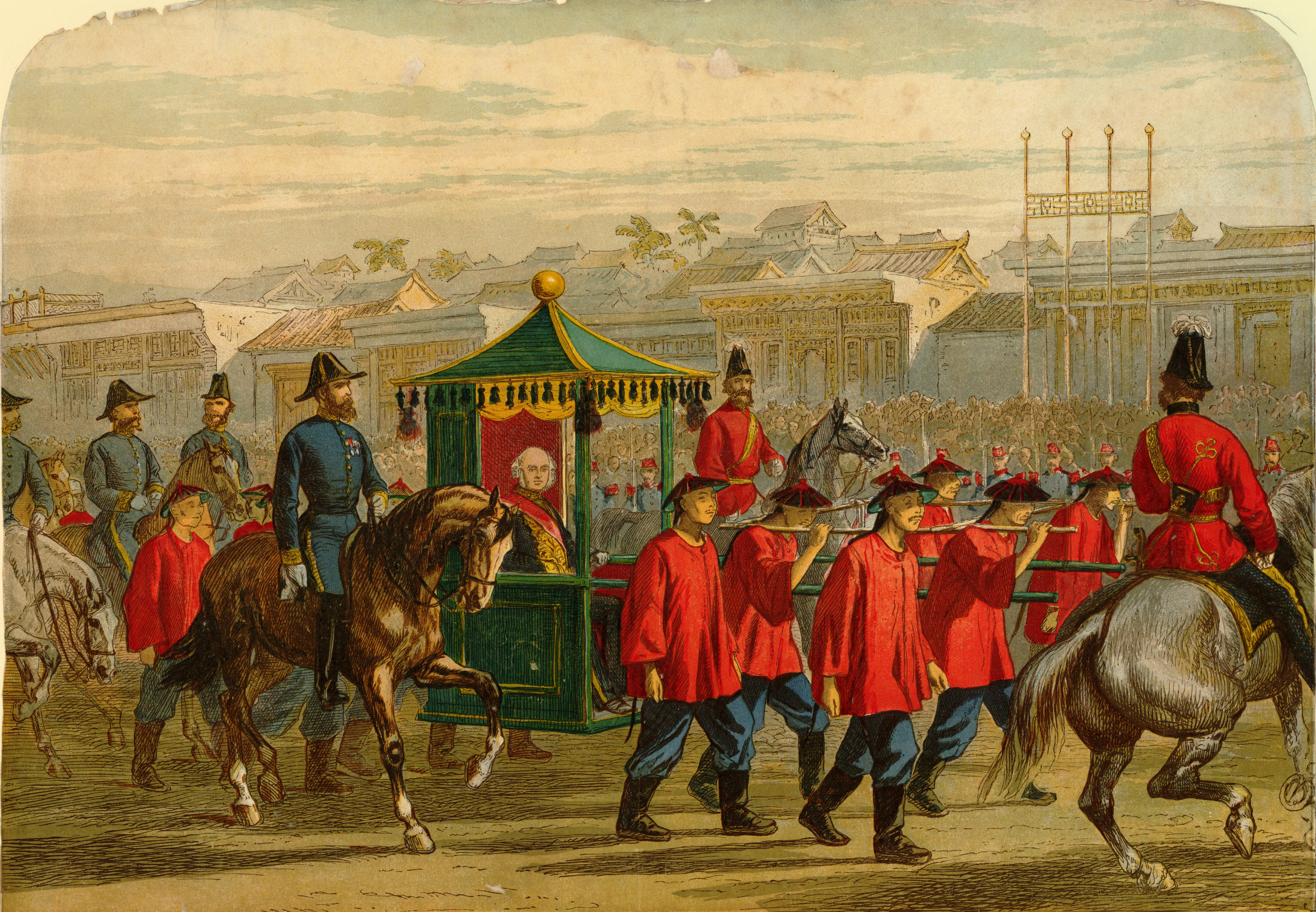 Chromolithograph of the state entry of Lord Elgin into Peking.